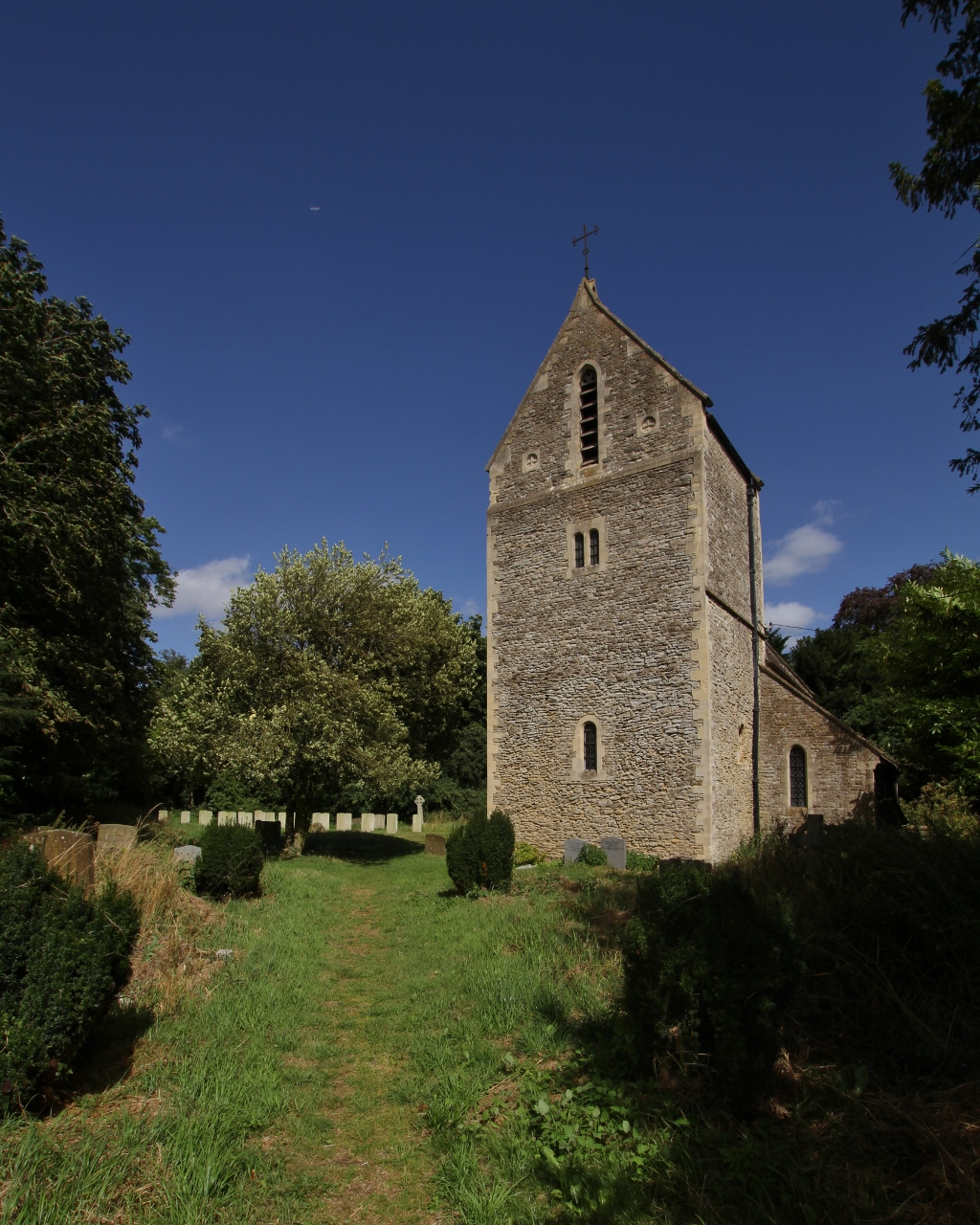 St Laurence's parish church, Caversfield, Oxfordshire (formerly Buckinghamshire), seen from the southwest